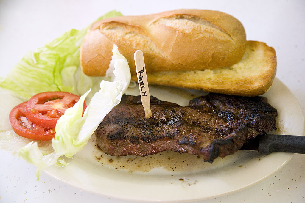 10-12 oz Rib Eye Steak on a French Roll Val's Burgers 2115 Kelly St Hayward, CA